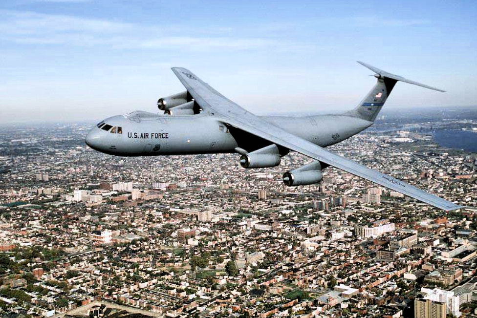 USAF C-141 Starlifter 64-6016, 438th Military Airlift Wing, 1990s